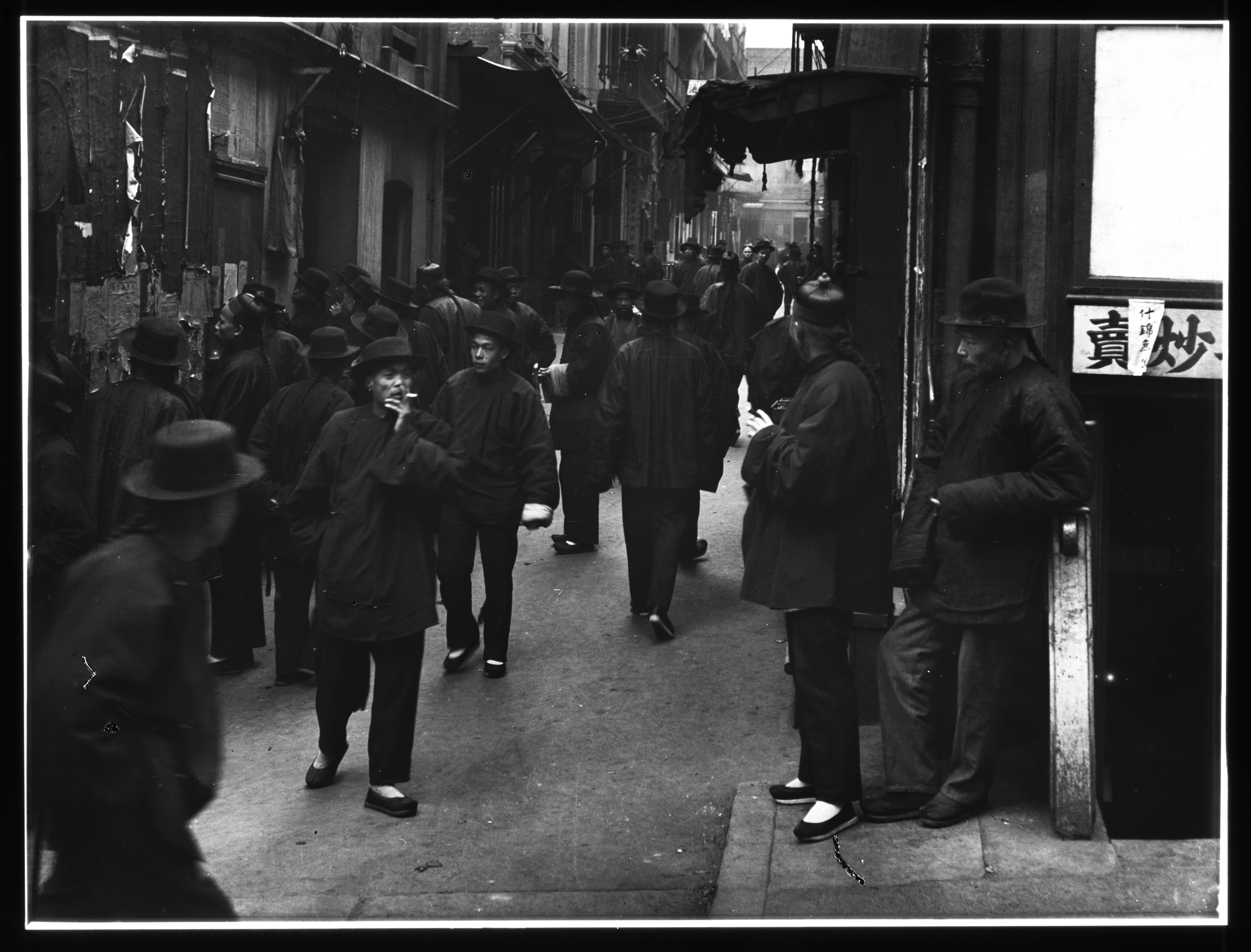 The street of the gamblers (by day), which is present-day Ross Alley. Scanned TIFF edited in GIMP to adjust curves & flip horizontally.